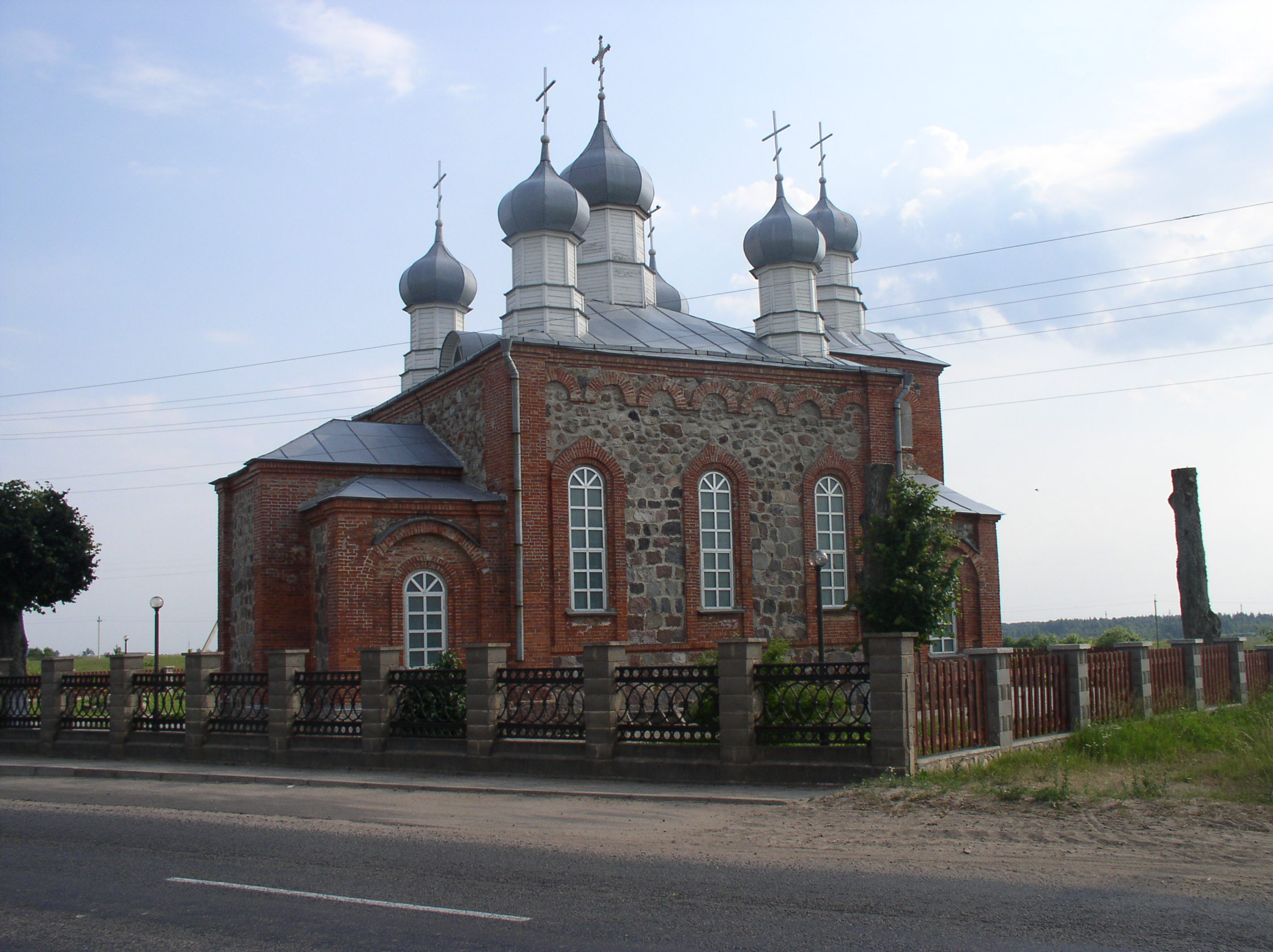 Church of Ascension. Rasony, Belarus.